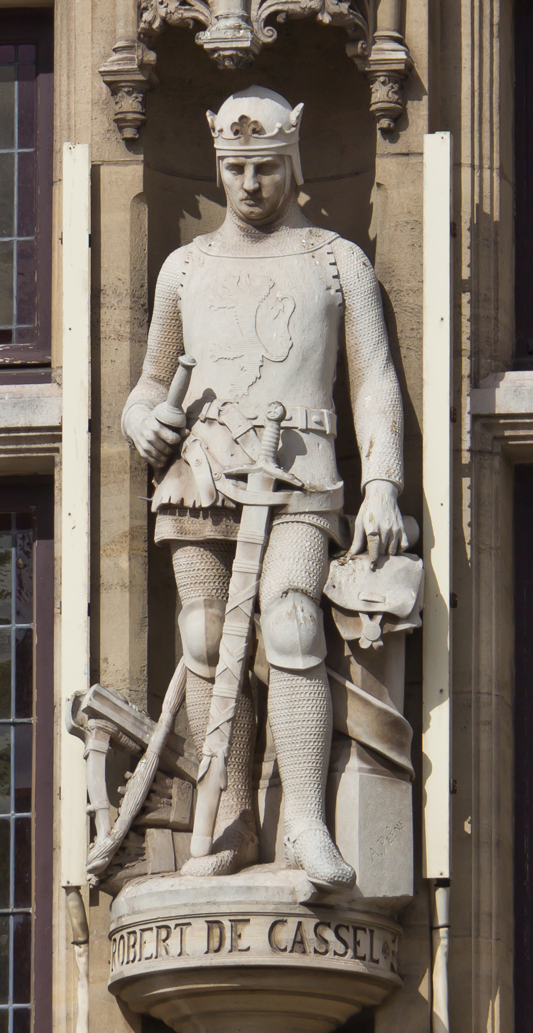 Town hall of Dunkerque - statue of Robert de Cassel